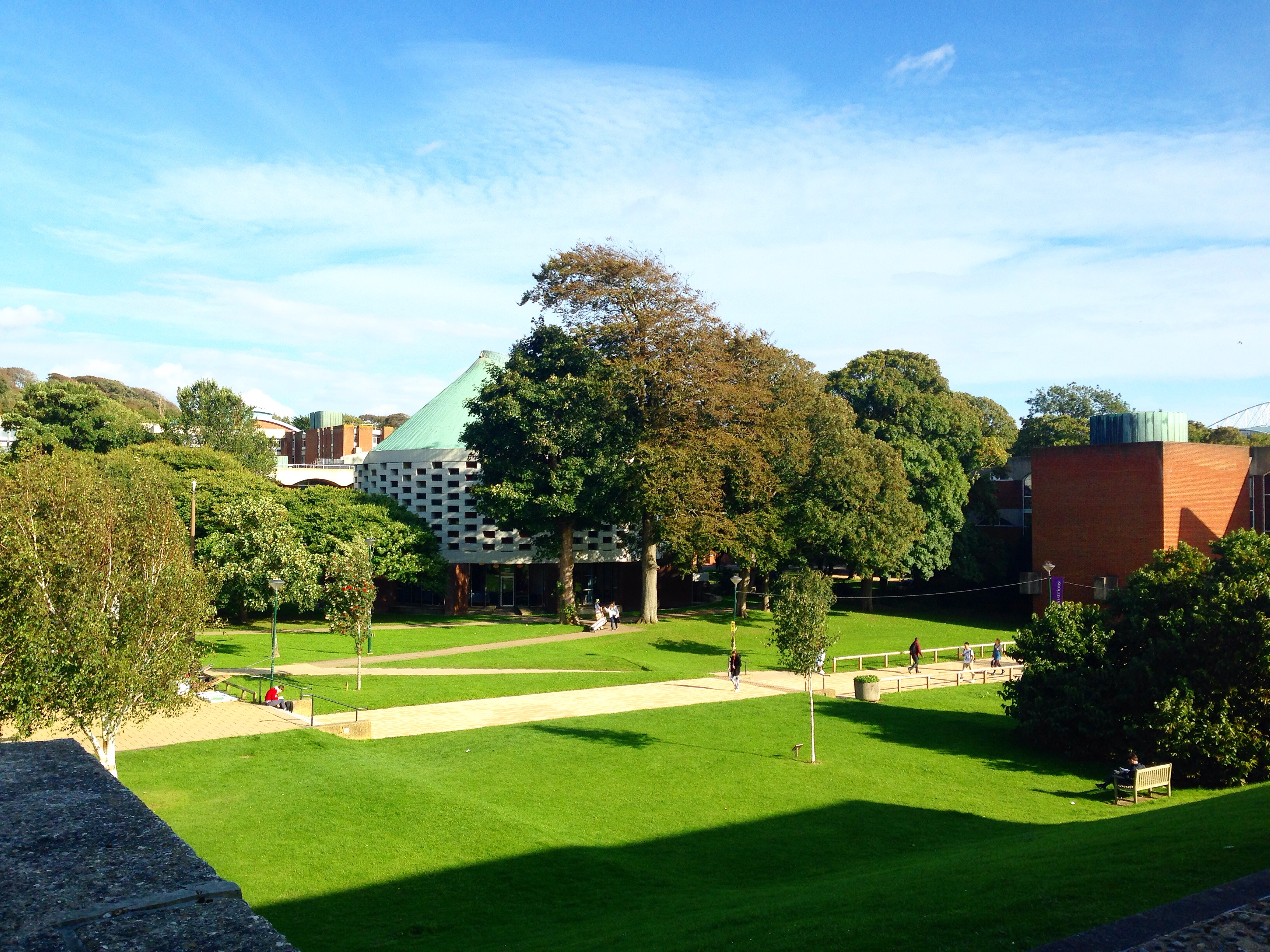 A picture of Meeting House and Library Square